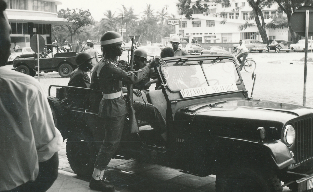 Armée National Congolaise troops in Léopoldville, 1960. One soldier holds a pair of handcuffs.